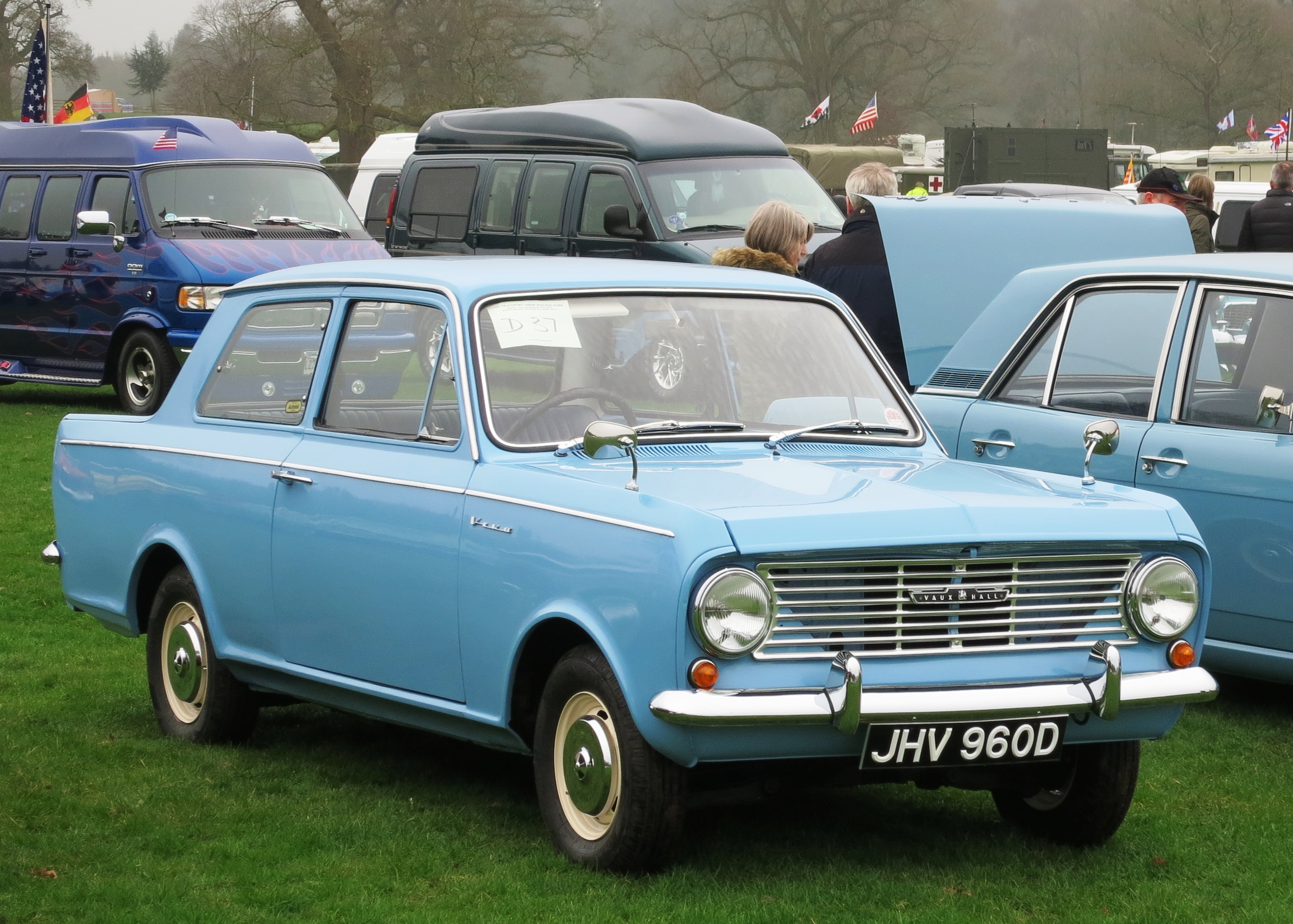 Vauxhall Viva HA (1966) at Weston